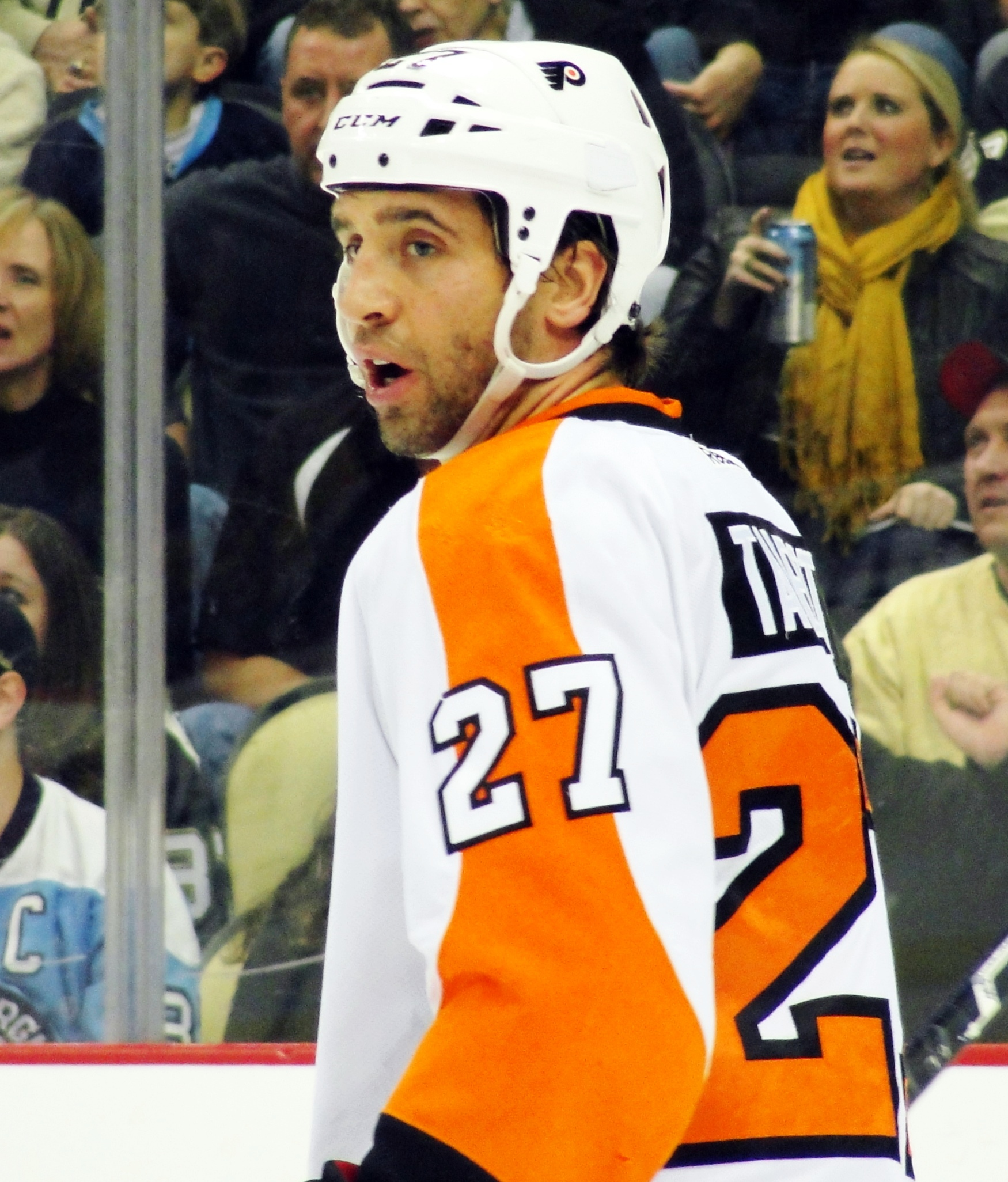 Max Talbot scored an empty net goal in the Philadelphia Flyers 4-2 win over his former team, the Pittsburgh Penguins December 29, 2011 at Consol Energy Center in Pittsburgh, PA.